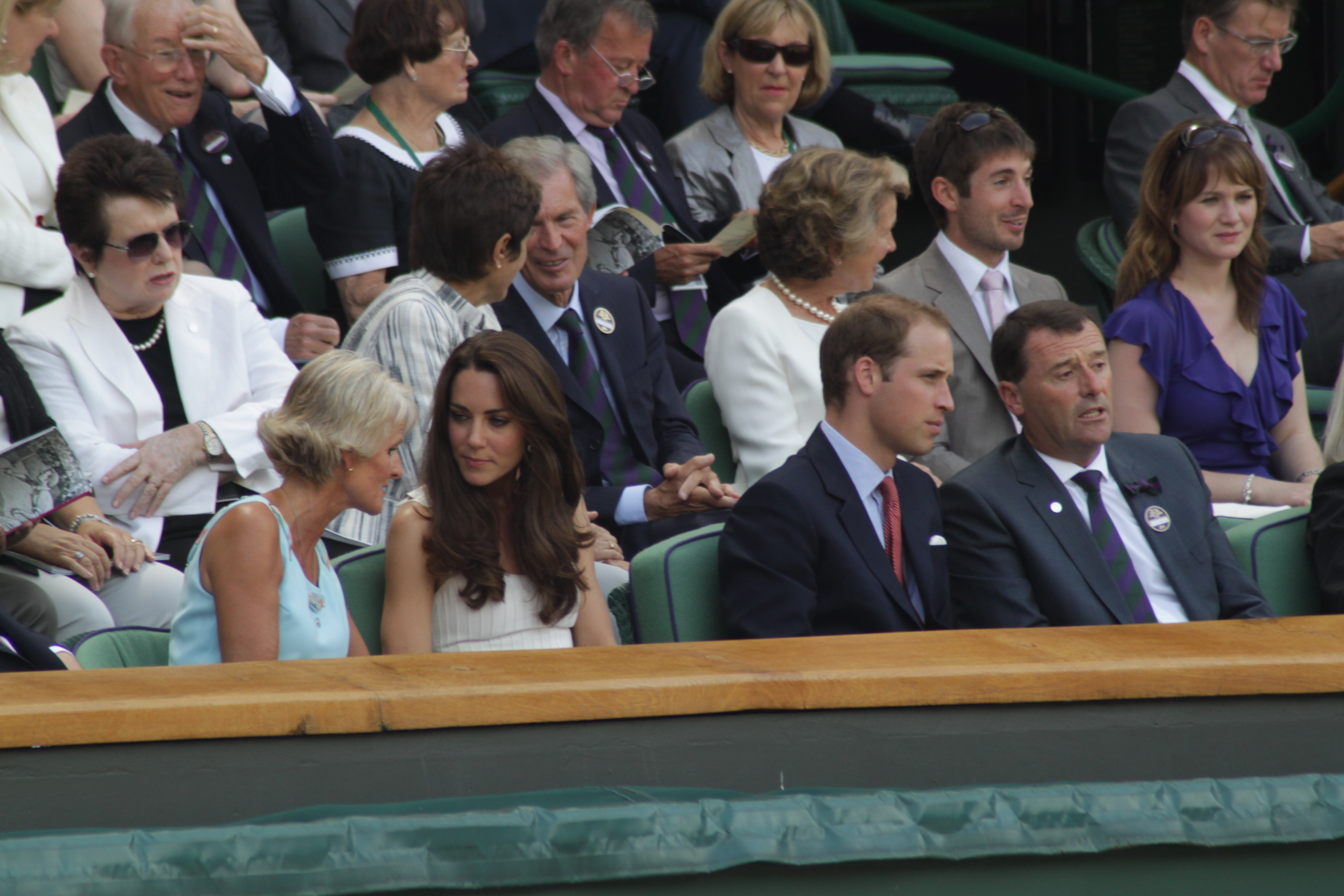 The Duke and Dutchess of Cambridge in the Royal box on the second Monday of the 2011 Wimbledon Championships. Also visable behind the Duchess is Billie Jean King